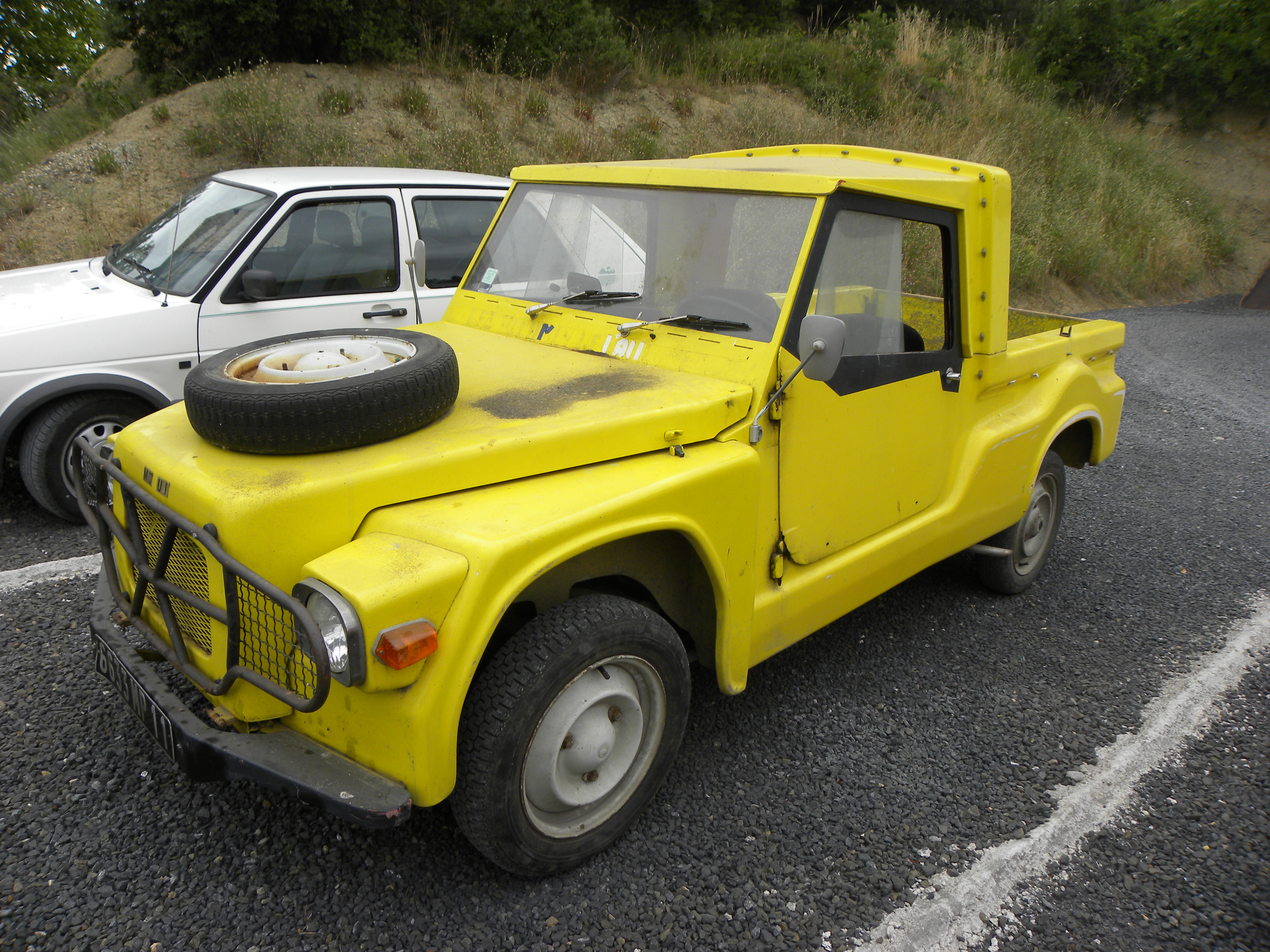 Early (1976-87?) Fredcar (fr).